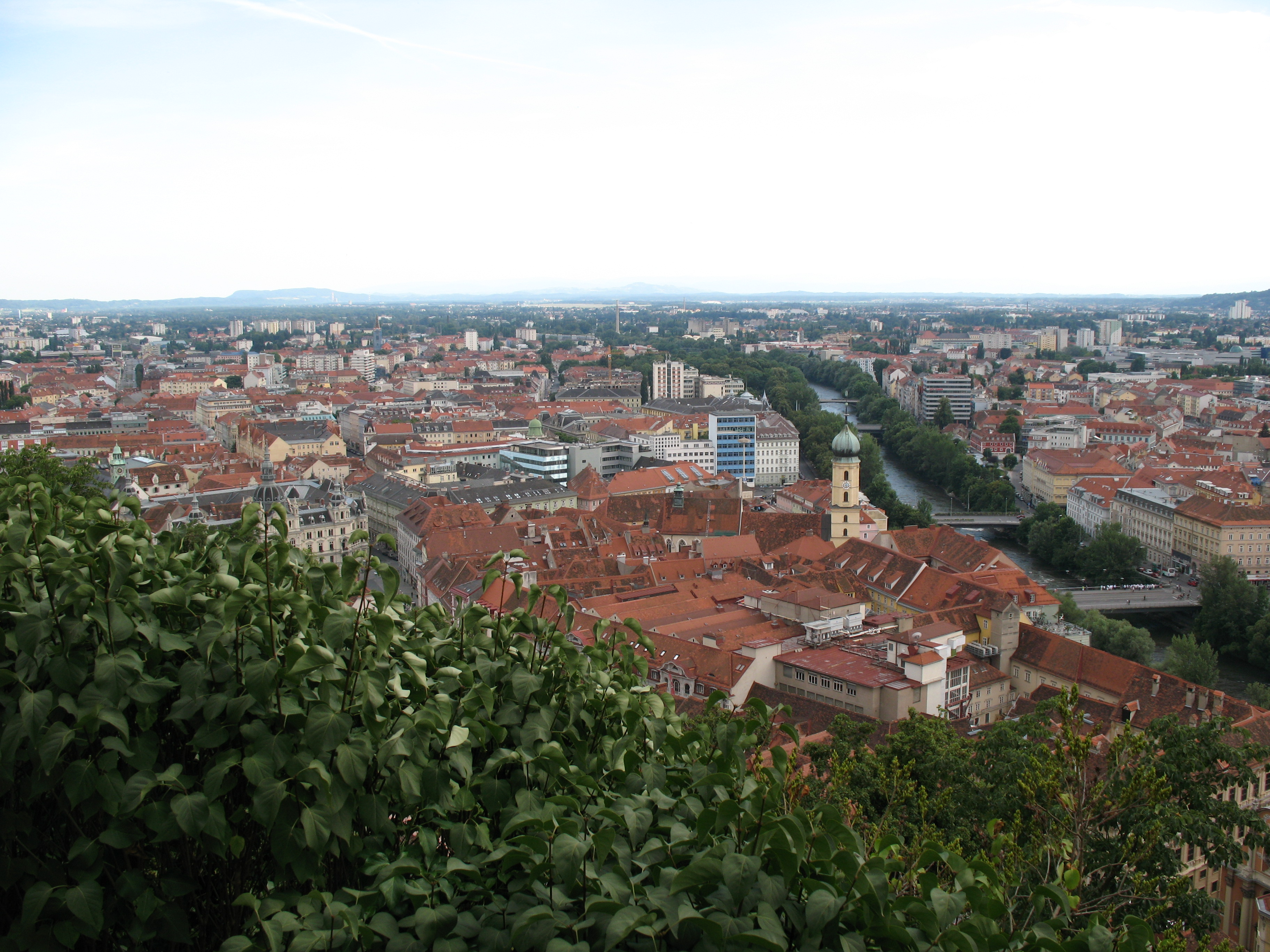 Graz, Austria